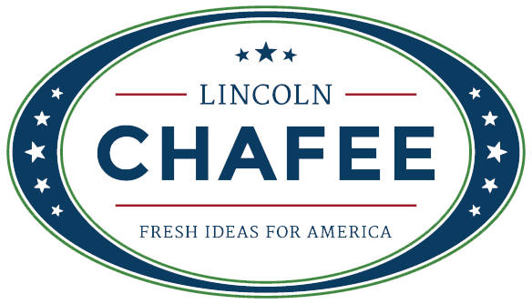 Campaign logo for Lincoln Chafee's 2016 Presidential bid